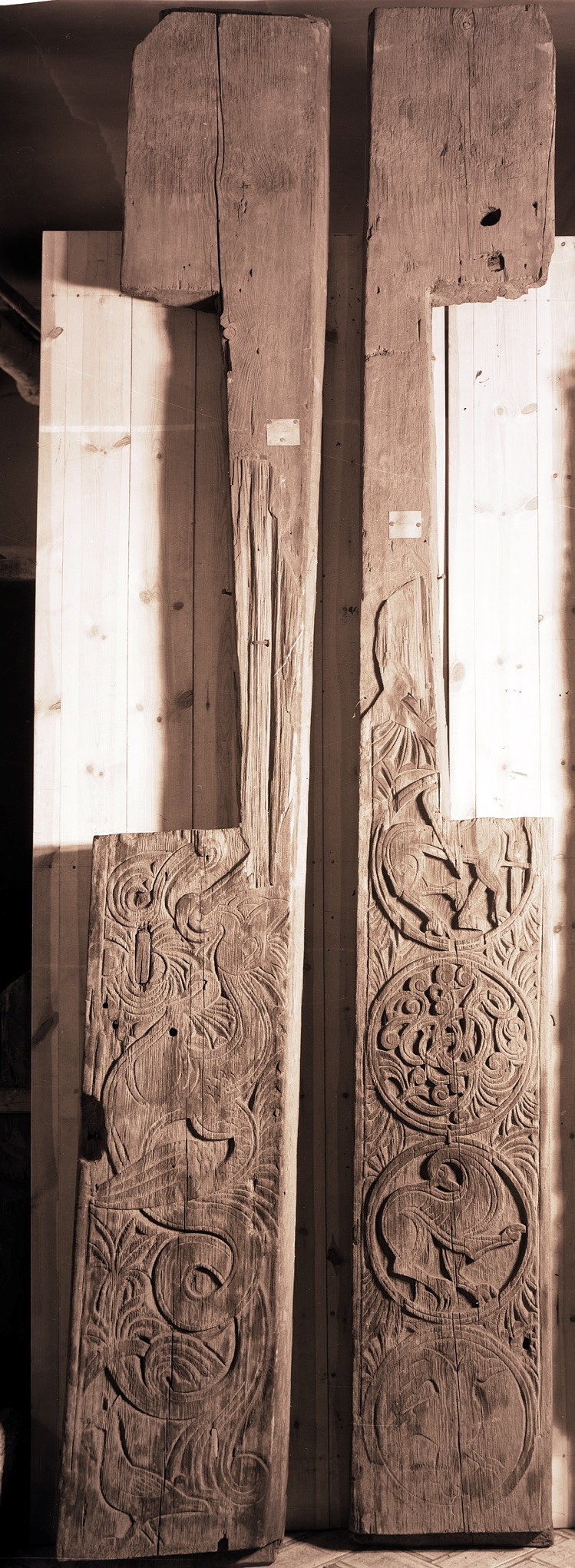 Portalplanker fra Lisleherad stavkirke. Ukjent fotograf, fra Riksantikvarens Kulturminnebilder.no.